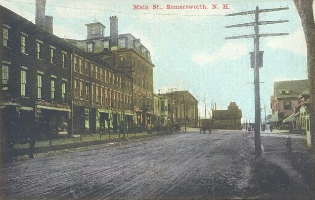 Main Street, Somersworth, NH; from a c. 1910 postcard. The tall building is the Great Falls Hotel, built by the Great Falls Mfg. Co. in 1825.